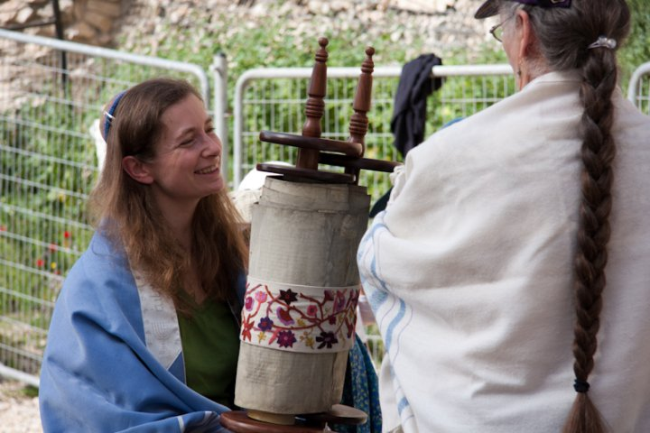 Women of the Wall on Rosh Chodesh